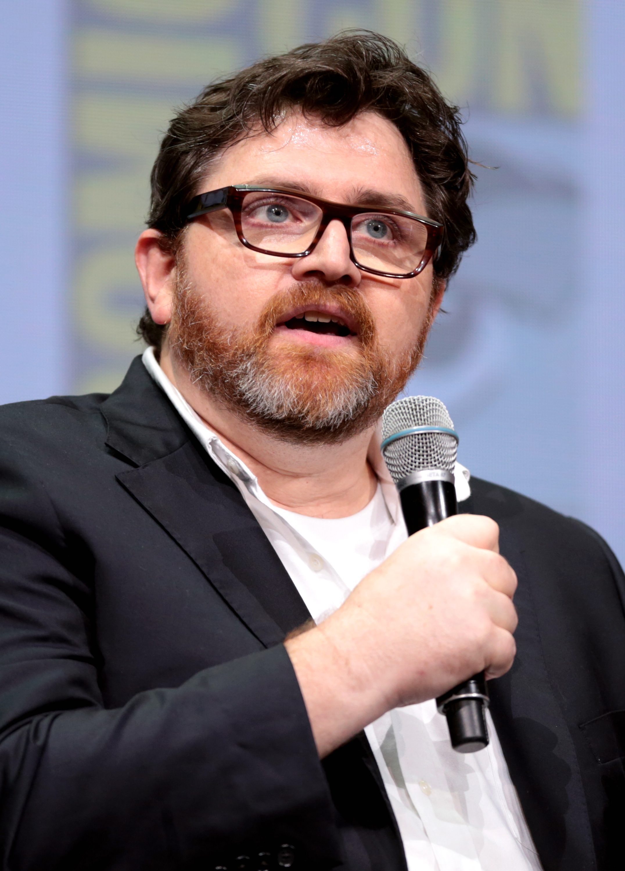 Ernest Cline speaking at the 2017 San Diego Comic-Con International in San Diego, California.